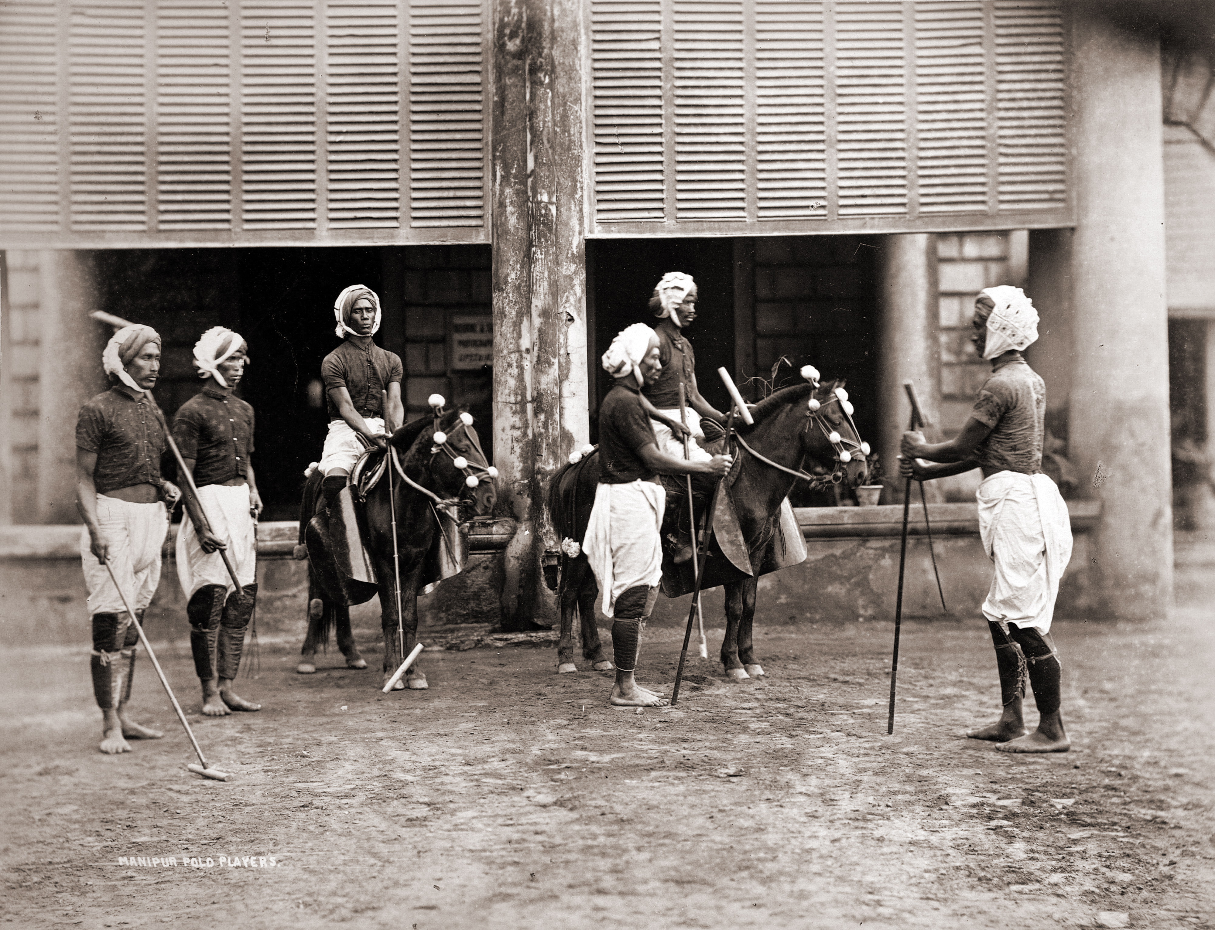 Manipuri Polo Players. Their version of the game was the model for the subsequent international game of polo and led to the founding of the world's first polo club, the Calcutta Polo Club